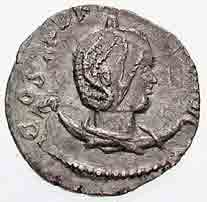 Obverse of old Roman coin.